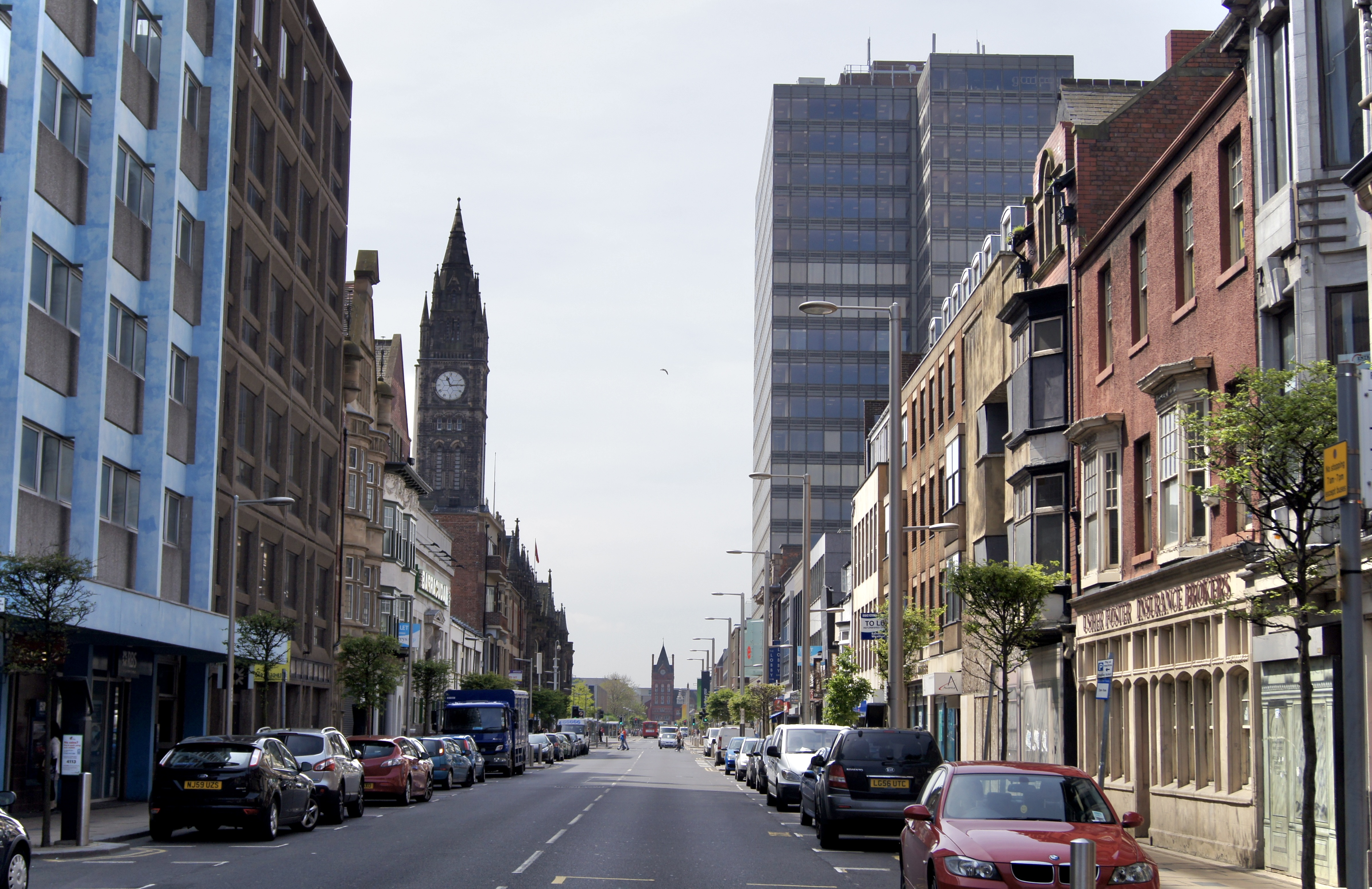 Albert Road, Middlesbrough. Picture taken in June 2012 viewing south.